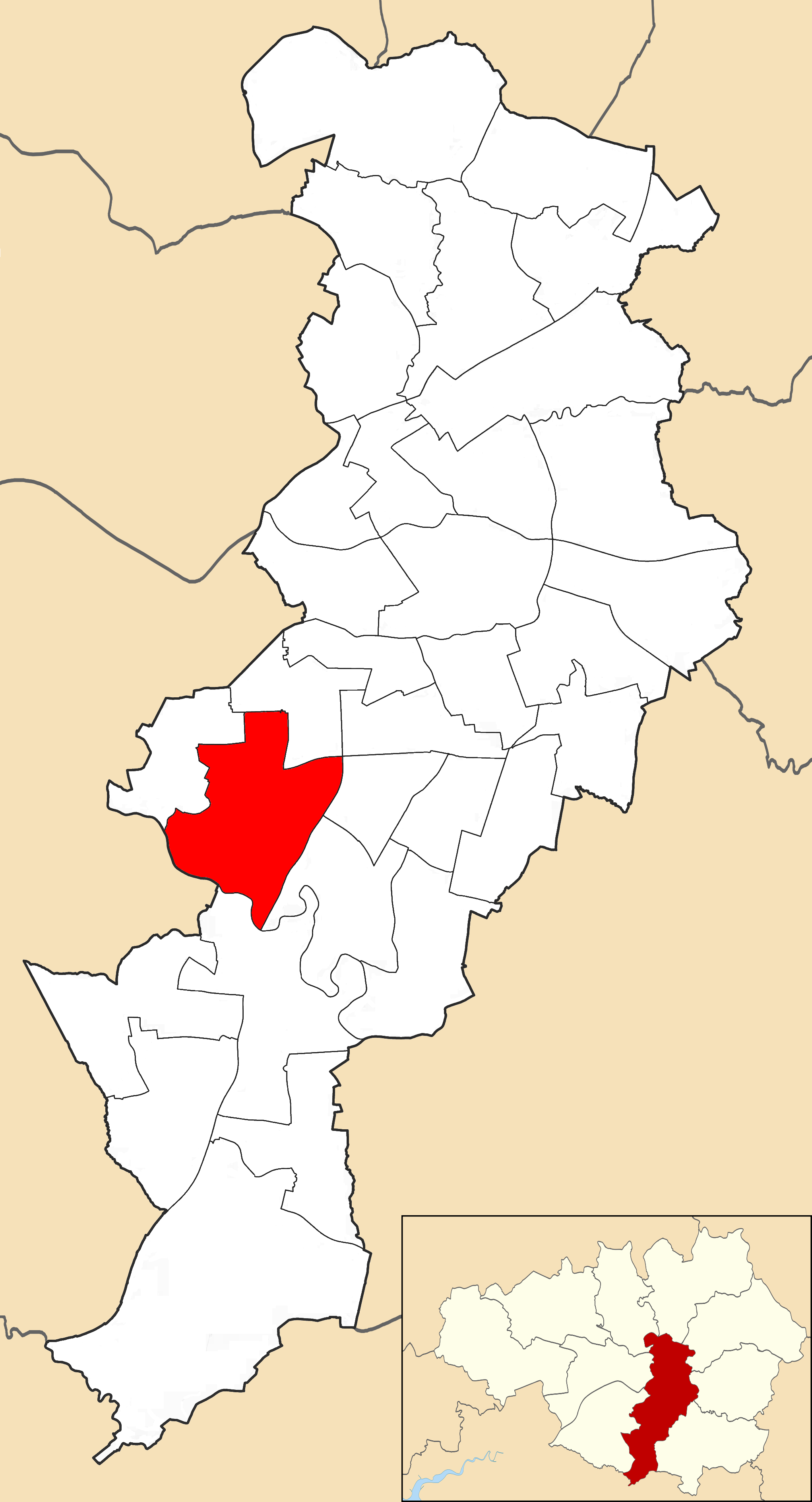 Map showing location of Chorlton Park ward within Manchester City Council.